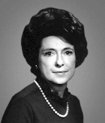 A picture of Corinne Lindy Boggs